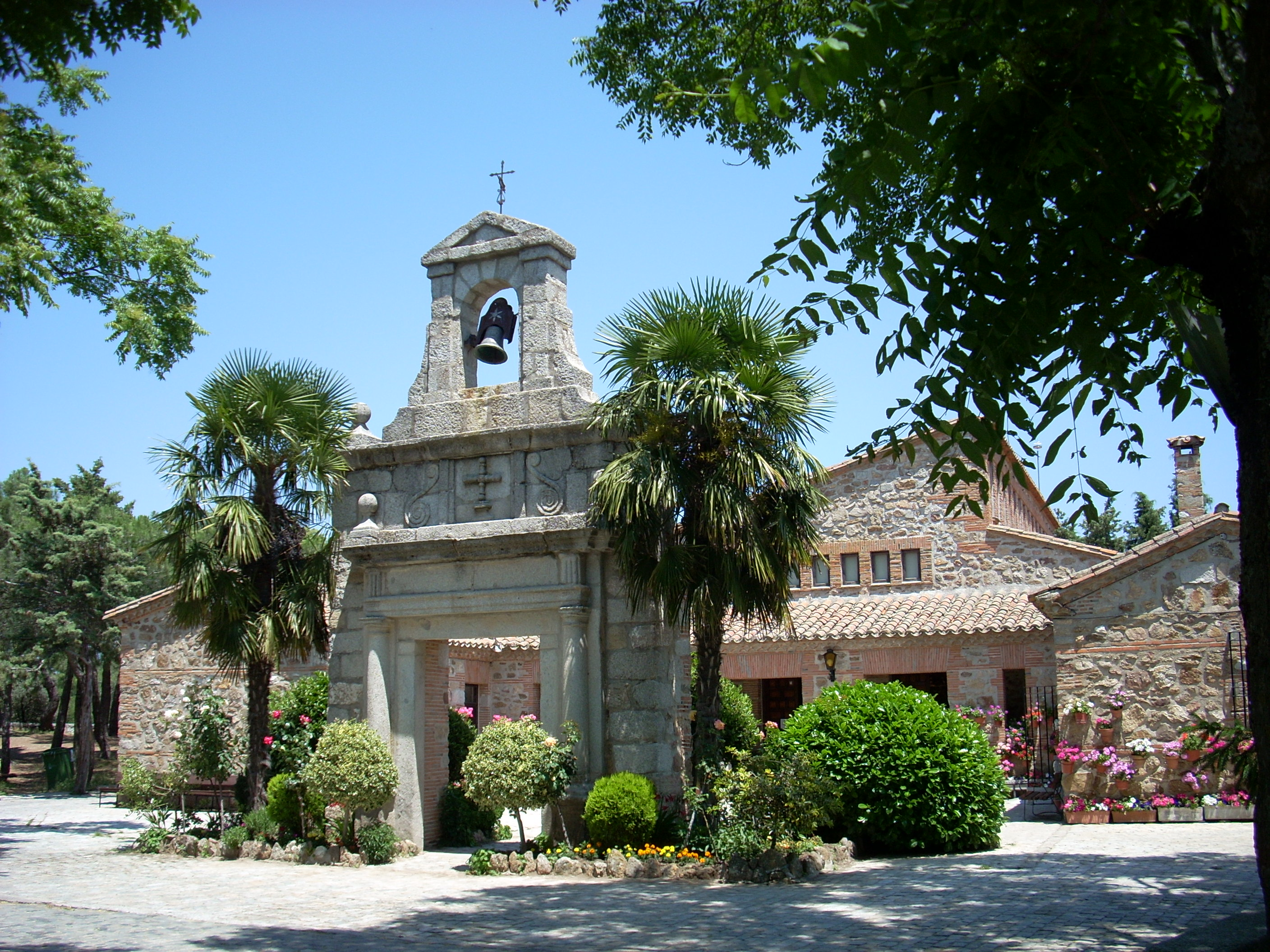 Hermitage of Our Lady of Remedios, Colmenar Viejo, Madrid